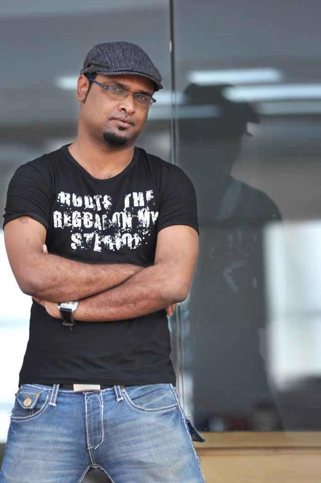 Shafiq Tuhin